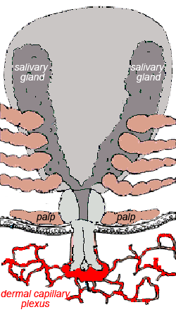 Ixodes holocyclus feeding mechanism